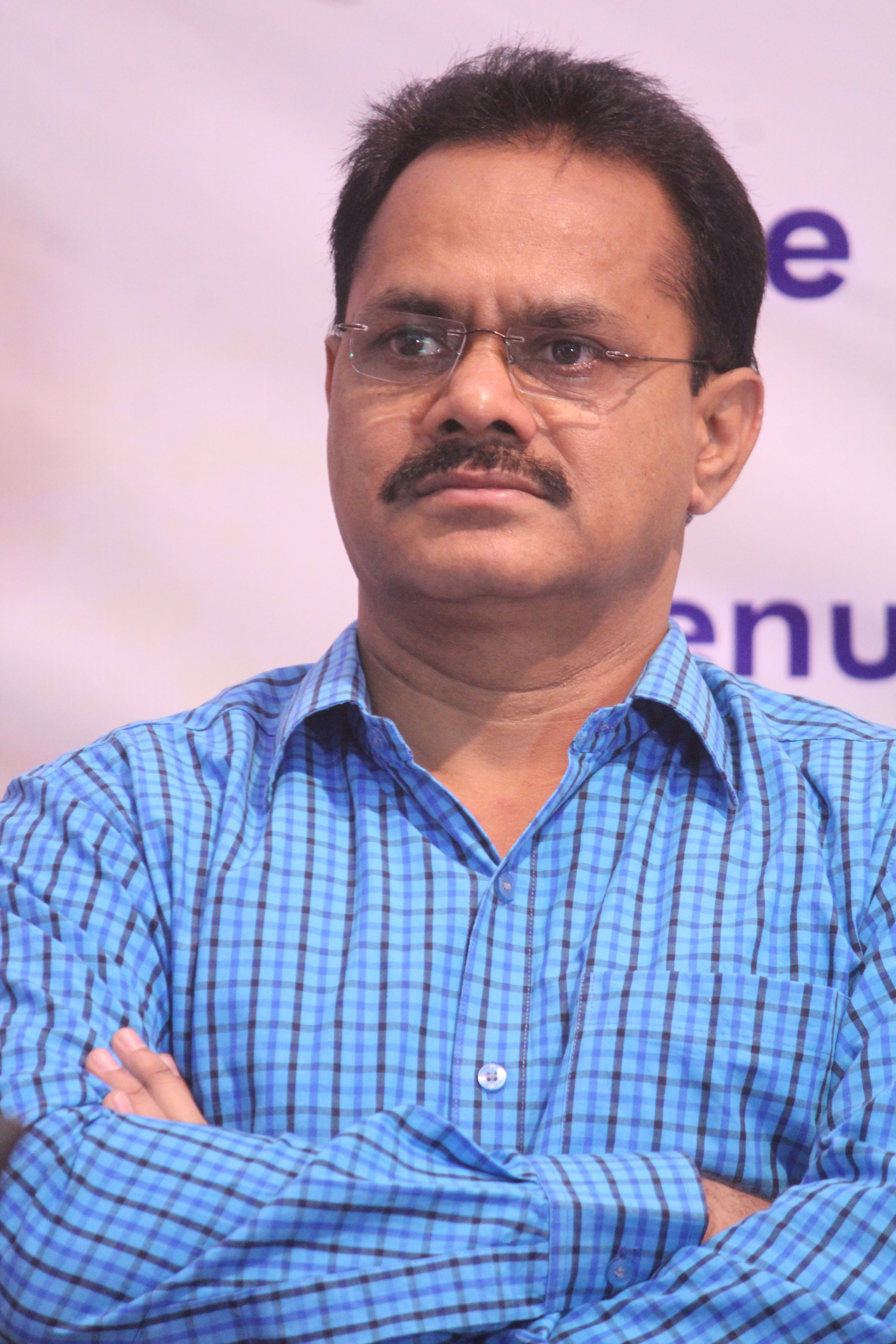 Burra Venkatesham in Face to Face with Aksharayan Women Writers Vedika About his Book Selfie Of Success in Ravindrabharathi